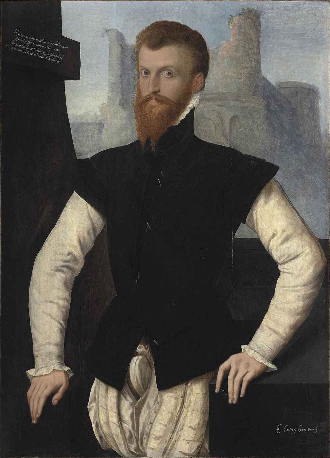 Portrait of Edward Courtenay, 1st Earl of Devon (1526-1556). In background a ruined castle, possibly Tiverton Castle, seat of the Earls of Devon